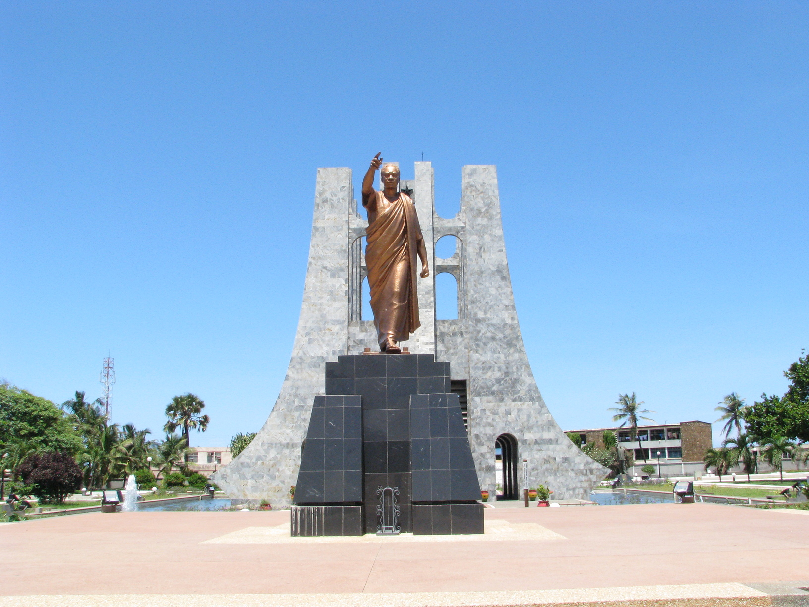 Front View of Kwame Nkrumah's Mausoleum and Memorial in Accra Ghana, May 2008